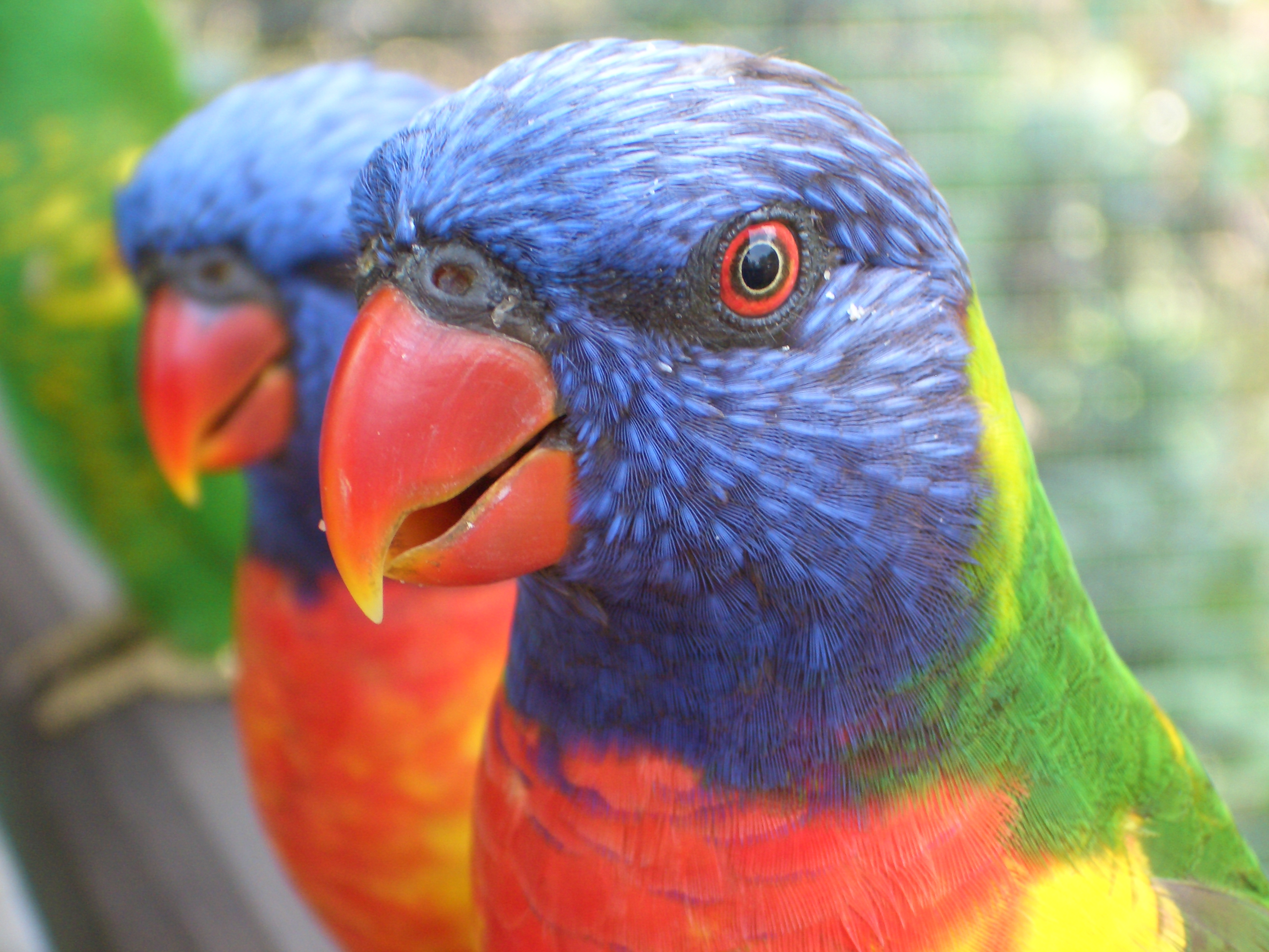 Rainbow Lorikeet (Trichoglossus haematodus) at Jurong BirdPark, Singapore.